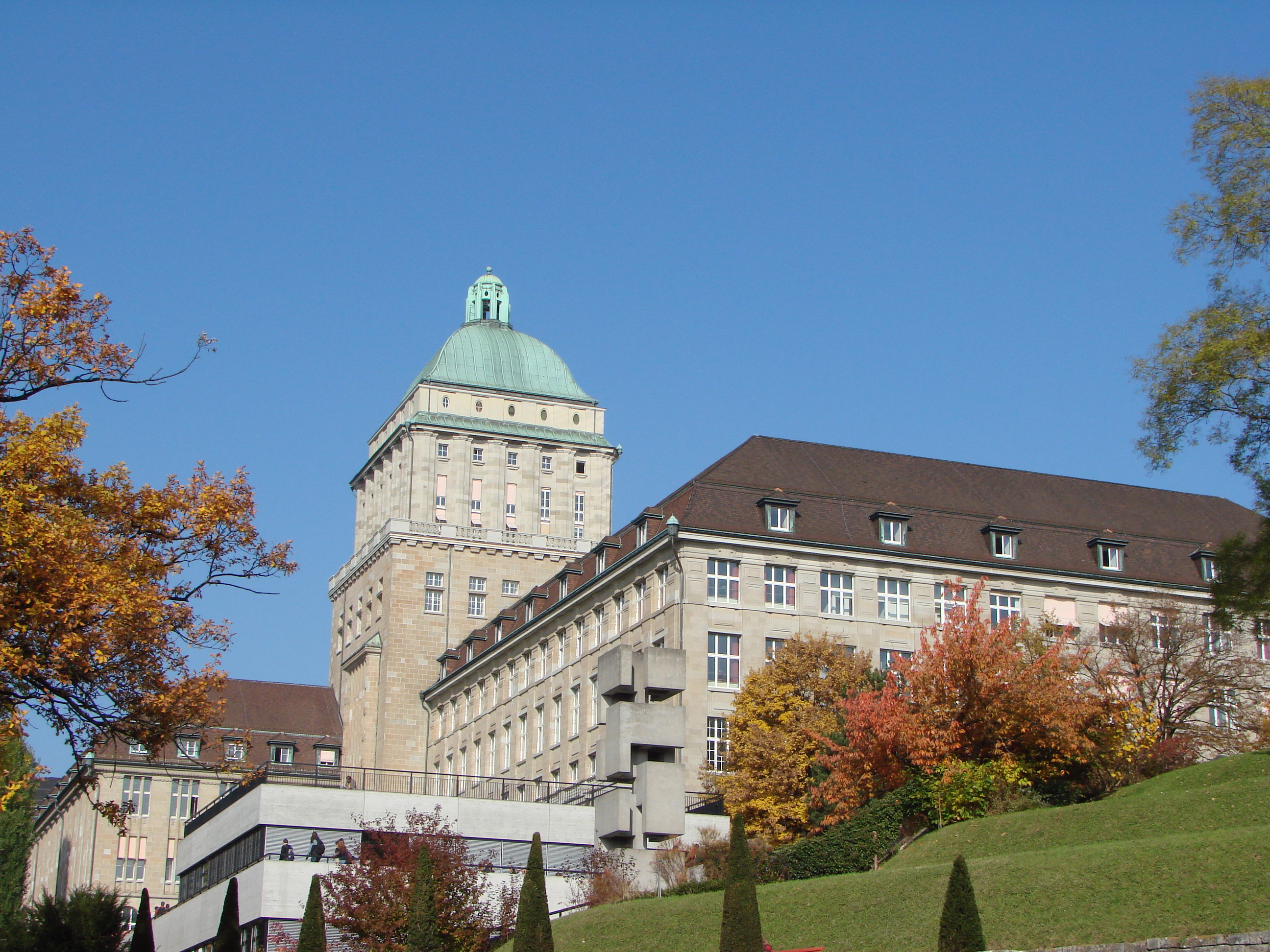 University of Zürich, main and historical building in the center of the city